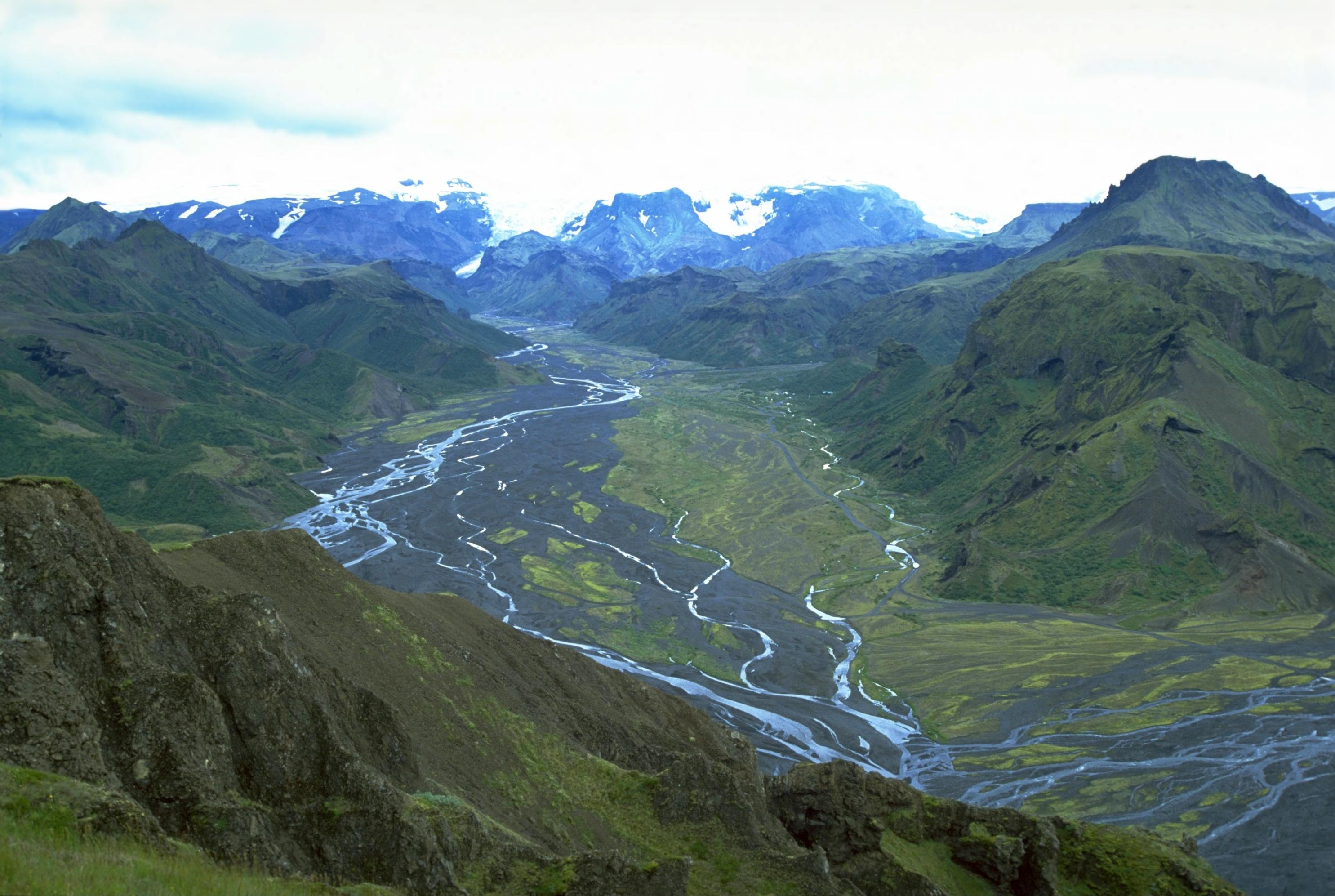 Þórsmörk, Iceland. Photo was taken using the following technique: Film: Fuji Velvia Lens: Minolta Dynax 7 Filter: none Body: Minolta 7 Support: Manfrotto 190B Image with Information in English Bild mit Informationen auf Deutsch